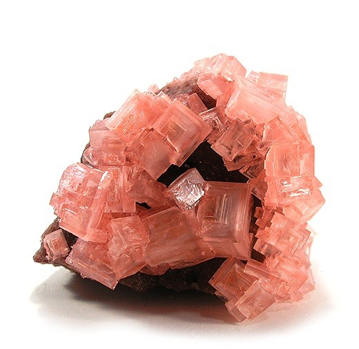 Halite, Nahcolite Locality: Searles Lake, San Bernardino County, California, USA (Locality at ) Okay, halite is salt, but for one thing, it is just as legitimate a mineral as any other, even if you CAN eat it (not this though - it contains bacteria so don't lick it!). This batch of gorgeous halite specimens was mined recently in California, and they are REALLY distinctive. Look at the amazingly fine structure of the crystals and beautiful bright pink color! But more than that, they have this wonderful contrast with a uniquely new matrix covered with minute nahcolite. Bottom line: it is just a plain stunningly pretty mineral specimen from a recent find; I bought ALL OF THEM THAT WERE AVAILABLE from the one contact who brought them to a show last year in California (not Tucson ‘06 – this is from 2005). NOTE that they are sensitive to humidity. 8.5 x 7 x 4.2 cm